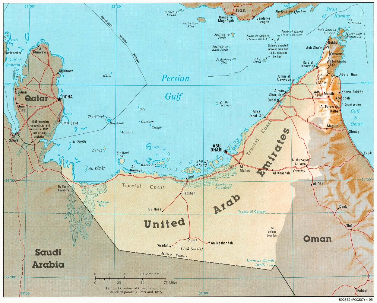 United Arab Emirates (Shaded Relief) 1995